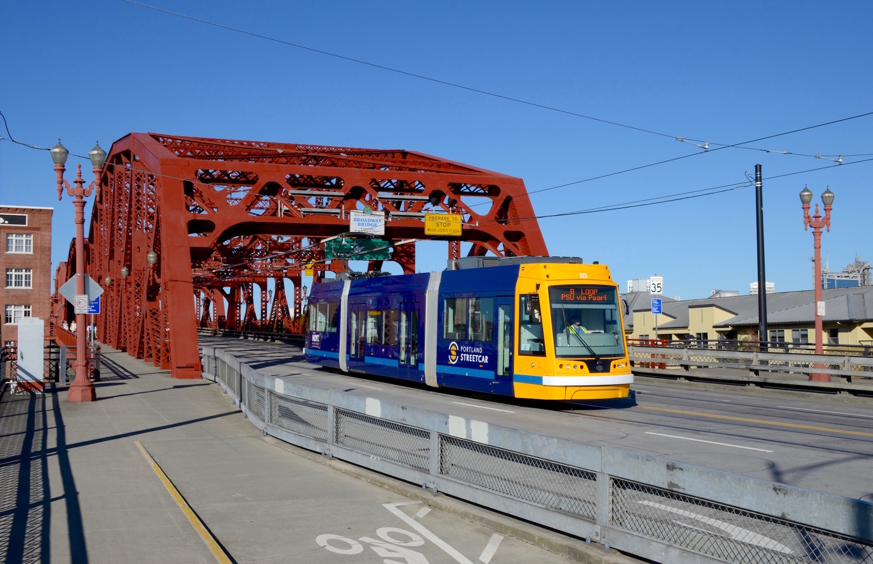 Car 023 of the Portland Streetcar system, built in 2013 by United Streetcar, is leaving the Broadway Bridge (in Portland, Oregon), on the B Loop service, a counterclockwise loop. The Broadway Bridge is a bascule-type drawbridge that was completed in 1913 and is listed on the U.S. National Register of Historic Places. It has carried streetcars from 1913 to 1940 and again since 2012.